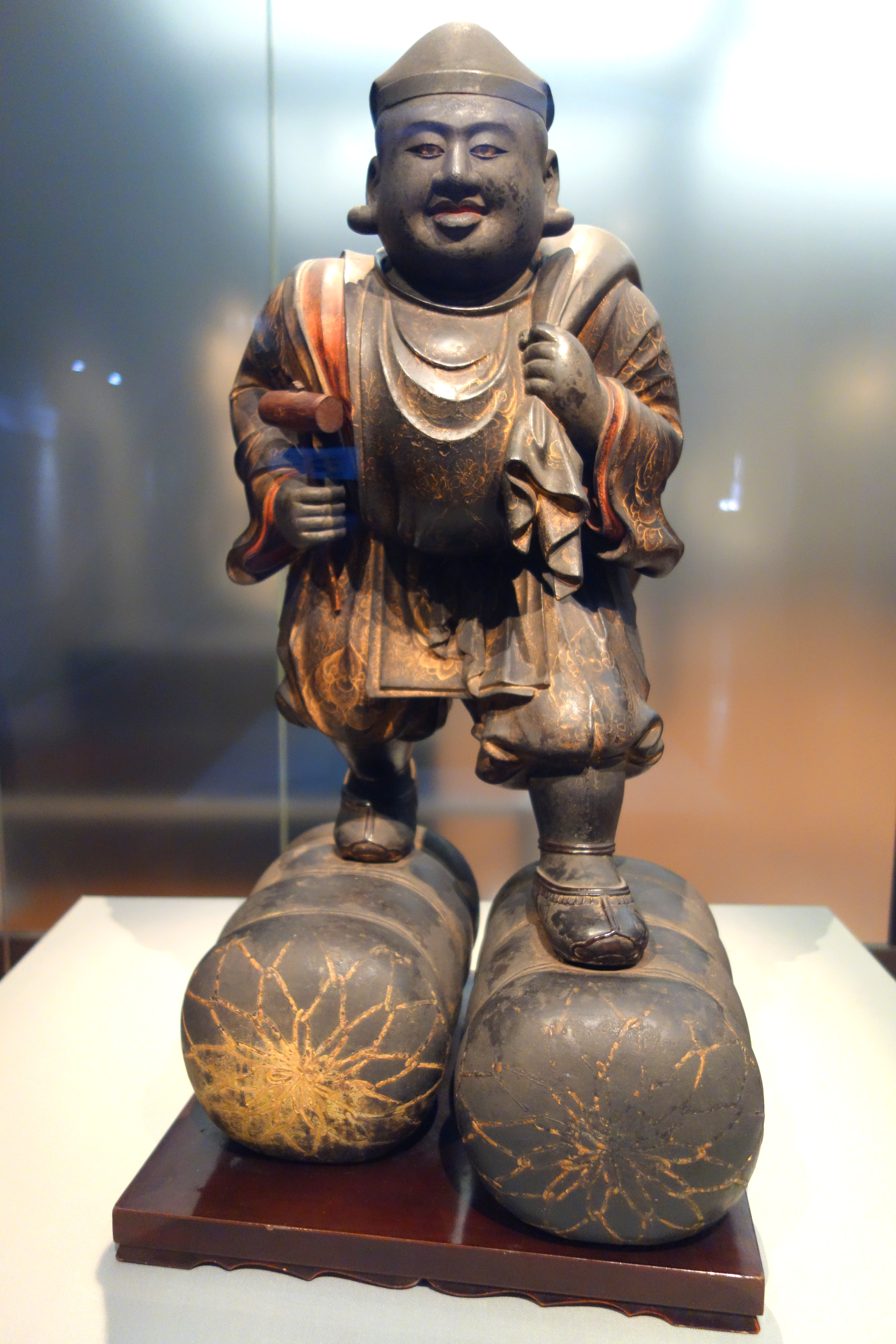 Exhibit in the Tokyo National Museum, Tokyo, Japan. This artwork is old enough so that it is in the public domain.